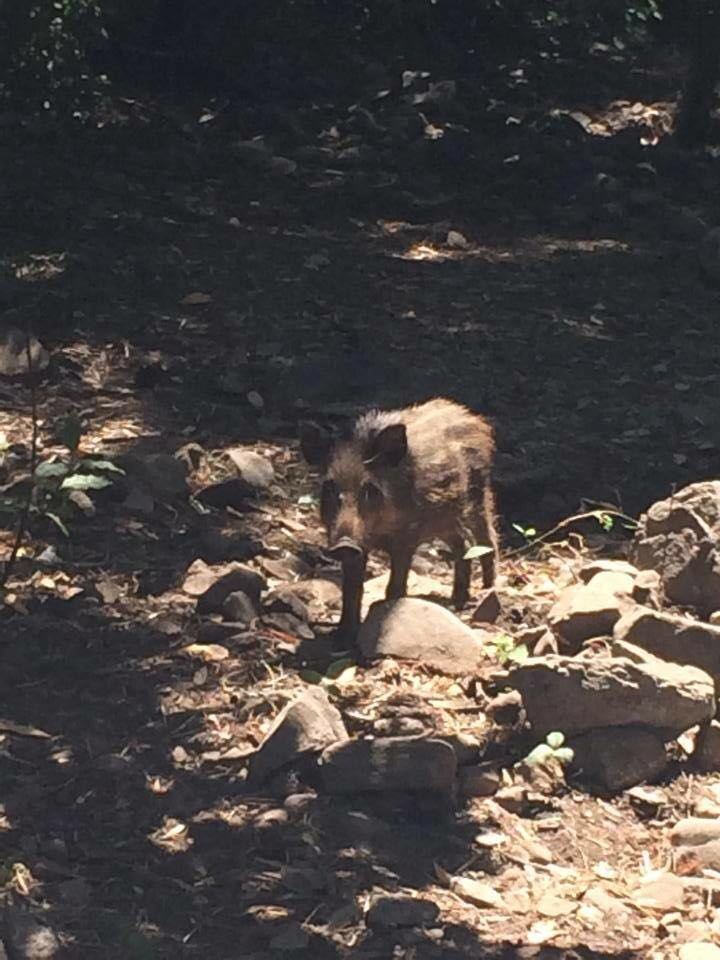 A wild juvenile boar in Kuşadası National Park, Turkey.